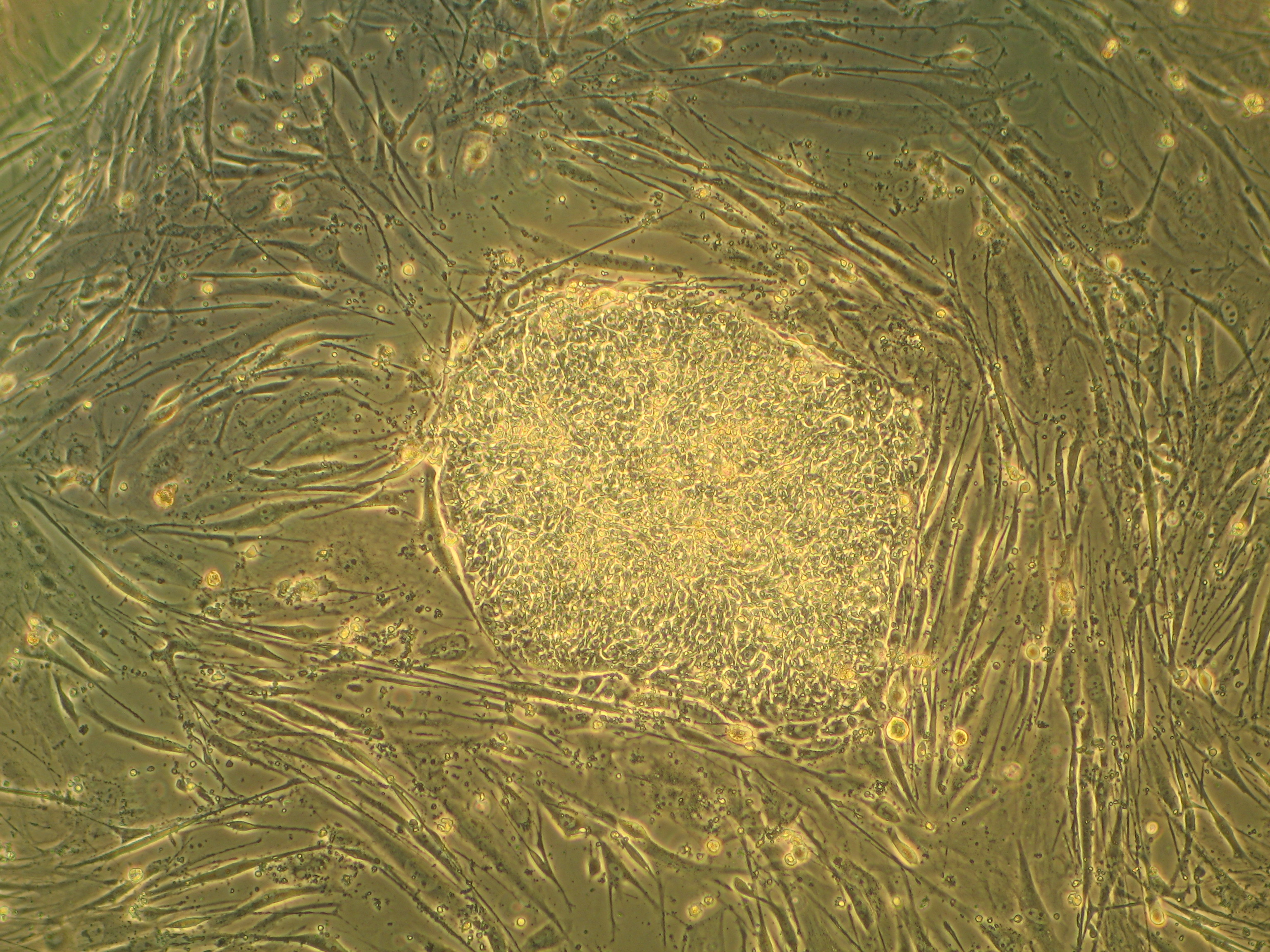 A colony of embryonic stem cells, from the H9 cell line (NIH code: WA09). Viewed at 10X with Carl Zeiss Axiovert scope. (The cells in the background are mouse fibroblast cells. Only the colony in the centre are human embryonic stem cells)